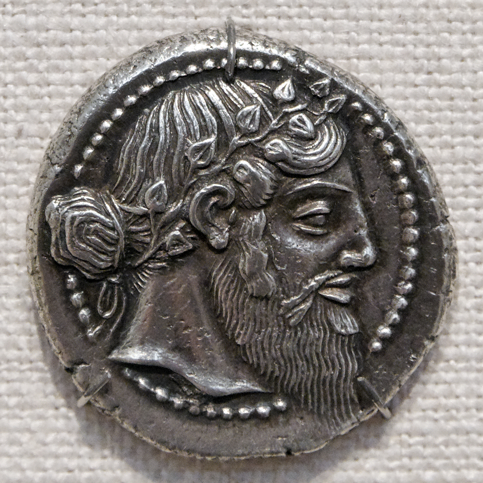 Head of bearded Dionysos right, crowned with ivy. Obverse of a silver tetradrachm of Naxos, Sicily.